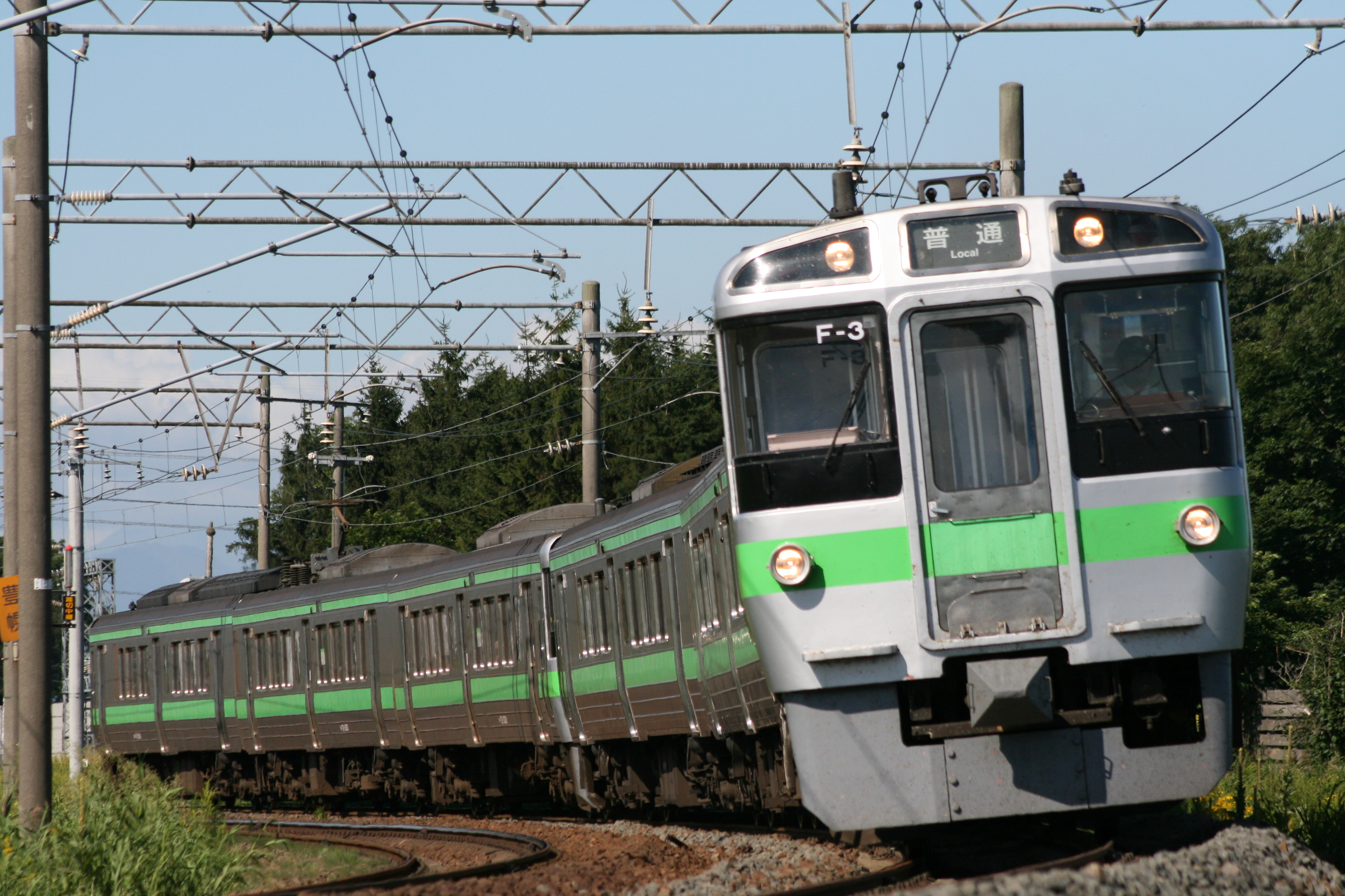 A pair of JR Hokkaido 721 series EMU sets